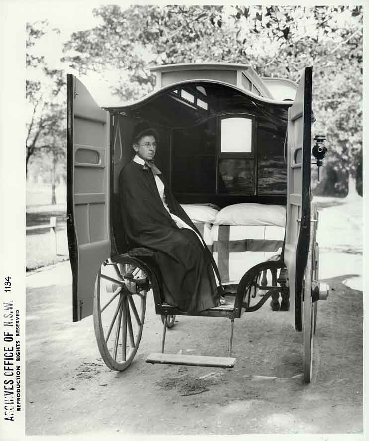 Nurse in the interior of Coast Hospital horsedrawn ambulance Dated: No date Digital ID: 4481_a026_000262 Rights: A new information leaflet covering a brief history of nursing in NSW from the early days of the Colony and an overview of our major archival sources relating to nurses is available on our website. We'd love to hear from you if you use our photos. Many other photos in our collection are available to view and browse on our website using Photo Investigator.